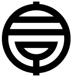 Shirako Chiba chapter